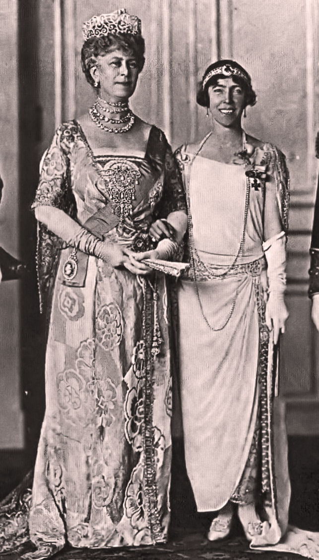 Queen Mary of the United Kingdom (1867-1953) and Queen Elisabeth of Belgium (1876–1965)